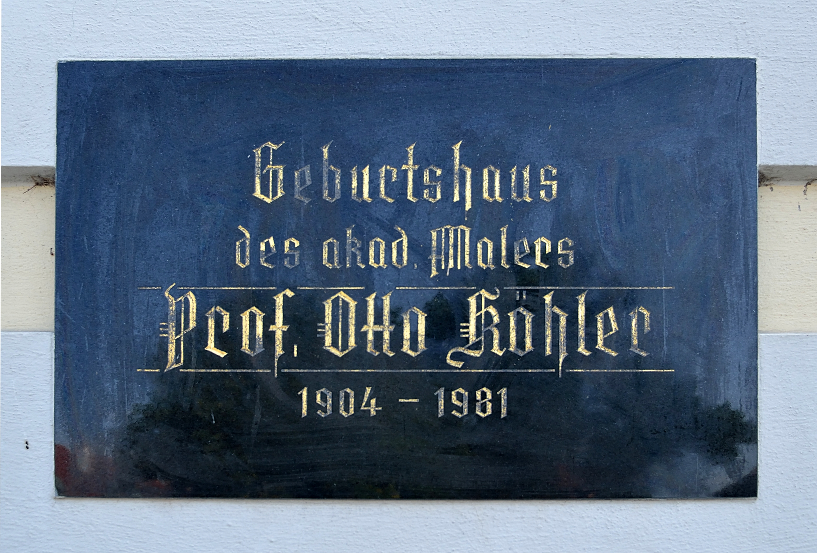 A plaque for the painter Otto Köhler (1904-1981) at Hauptplatz 7, Drosendorf, Lower Austria. He was born there.